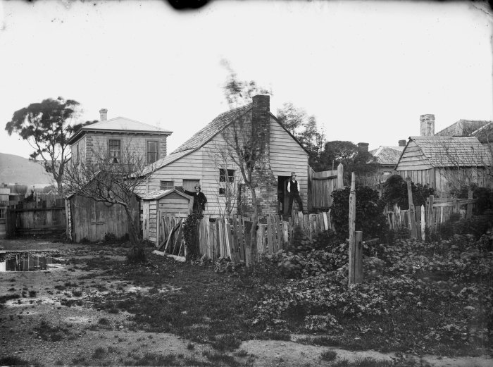 "The Old Shebang", Cuba Street, Wellington